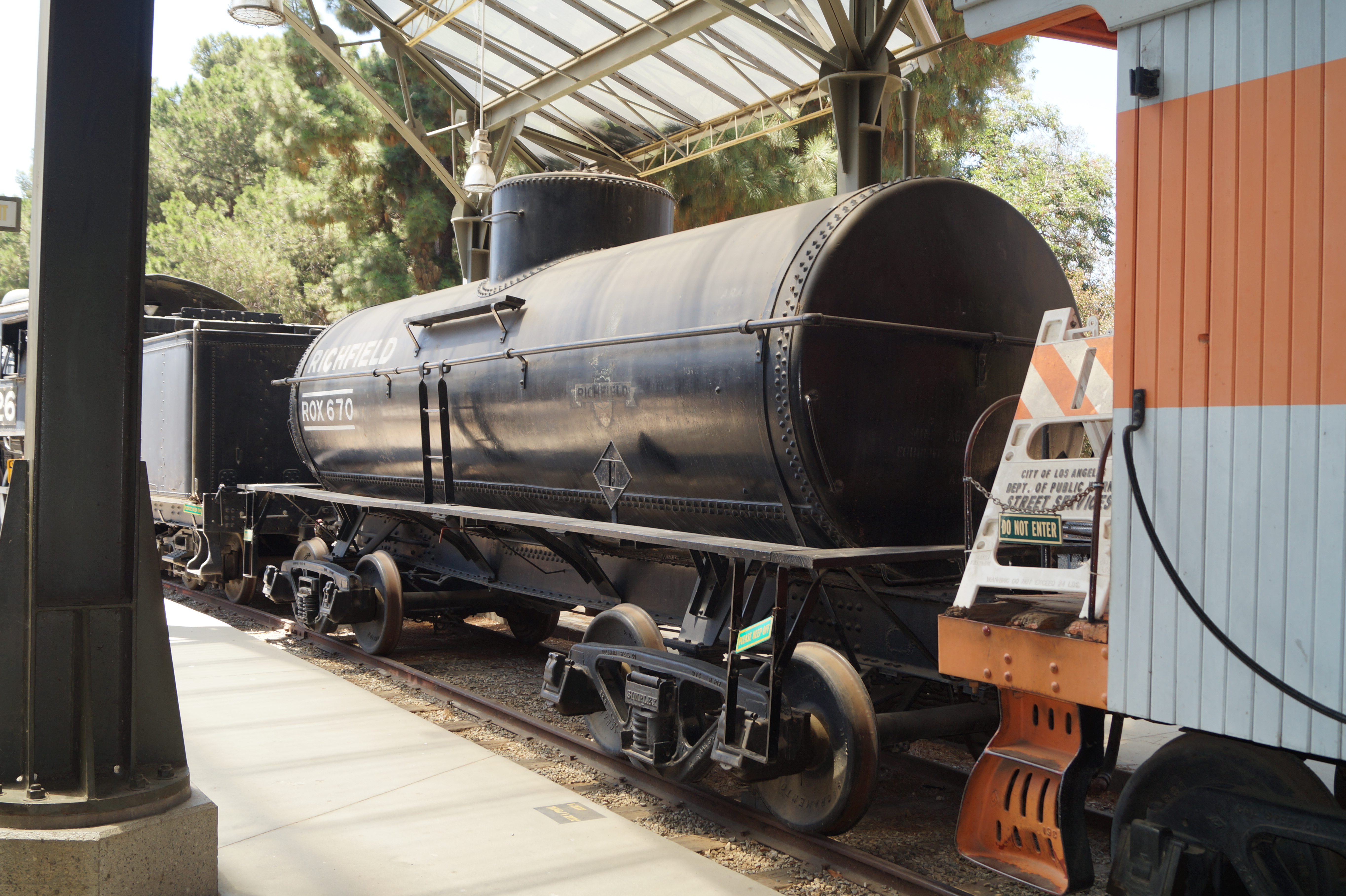 Travel Town Museum is a transport museum dedicated in the northwest corner of Los Angeles, California's Griffith Park. The history of railroad transportation in the western United States from 1880 to the 1930s is the primary focus of the museum's collection, with an emphasis on railroading in Southern California and the Los Angeles area.